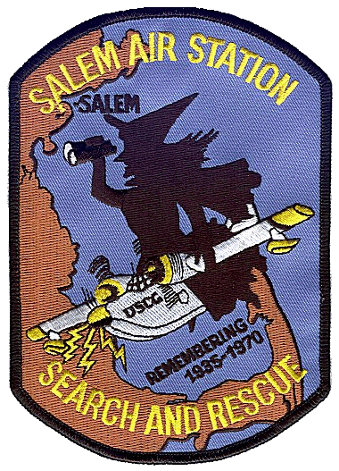 A patch for the Coast Guard Air Station Salem, Massachusetts. It is a commemorative patch because the phrase "Remembering 1935-1970" appears on it. The patch features a seaplane, the Massachusetts coast, and the silhouette of a witch.